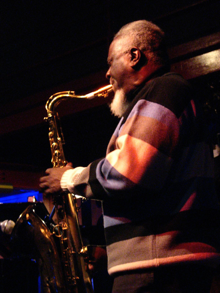 Pharoah Sanders at the Jazz Cafe, 1/2/08